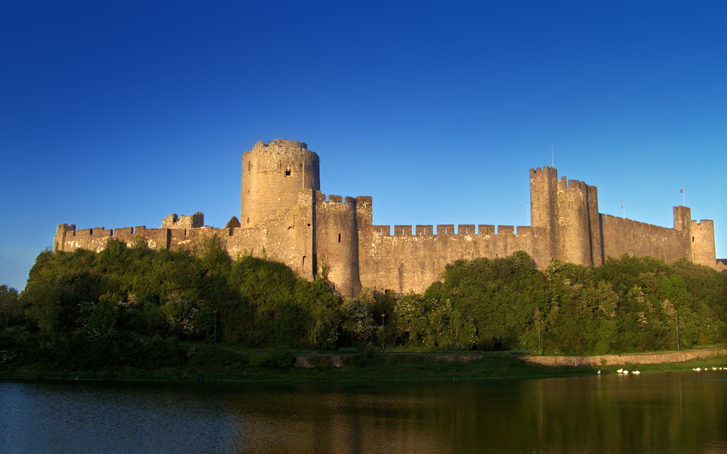 View of Pembroke Castle and the Pembroke river.